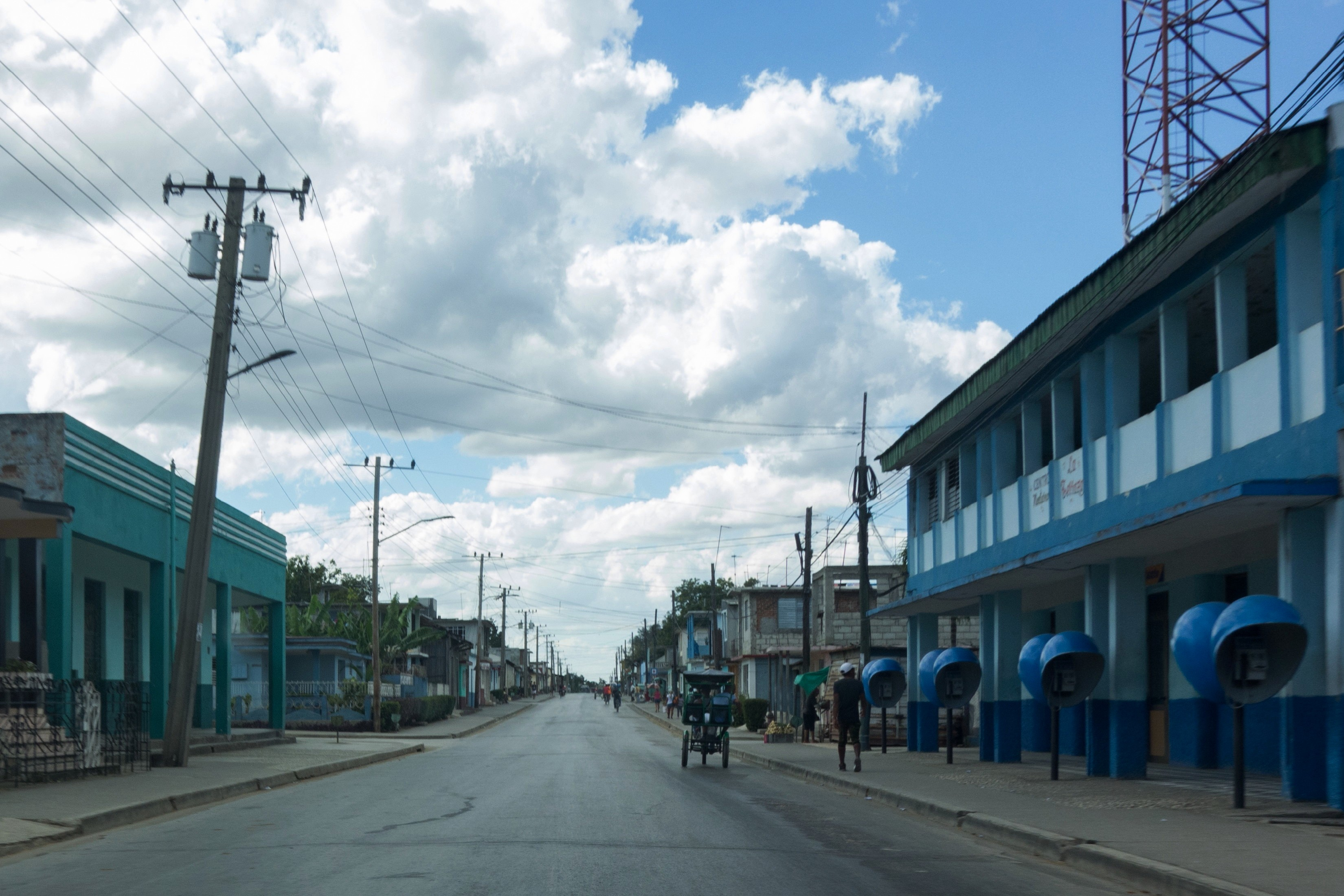 The village Baire (Cuba), province of Santiago de Cuba